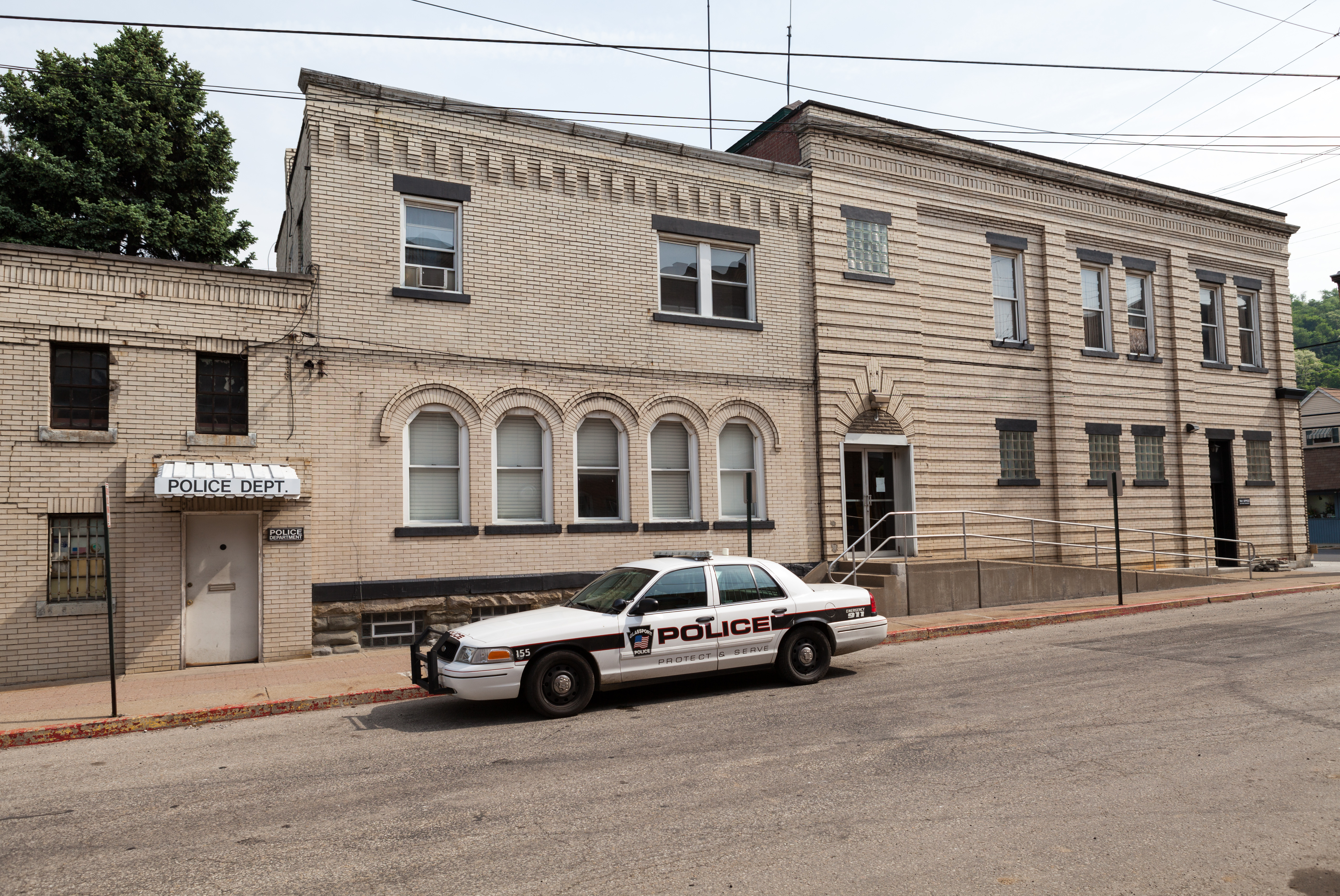 Glassport Police Department at 440 Monongahela Ave in Glassport, Pennsylvania